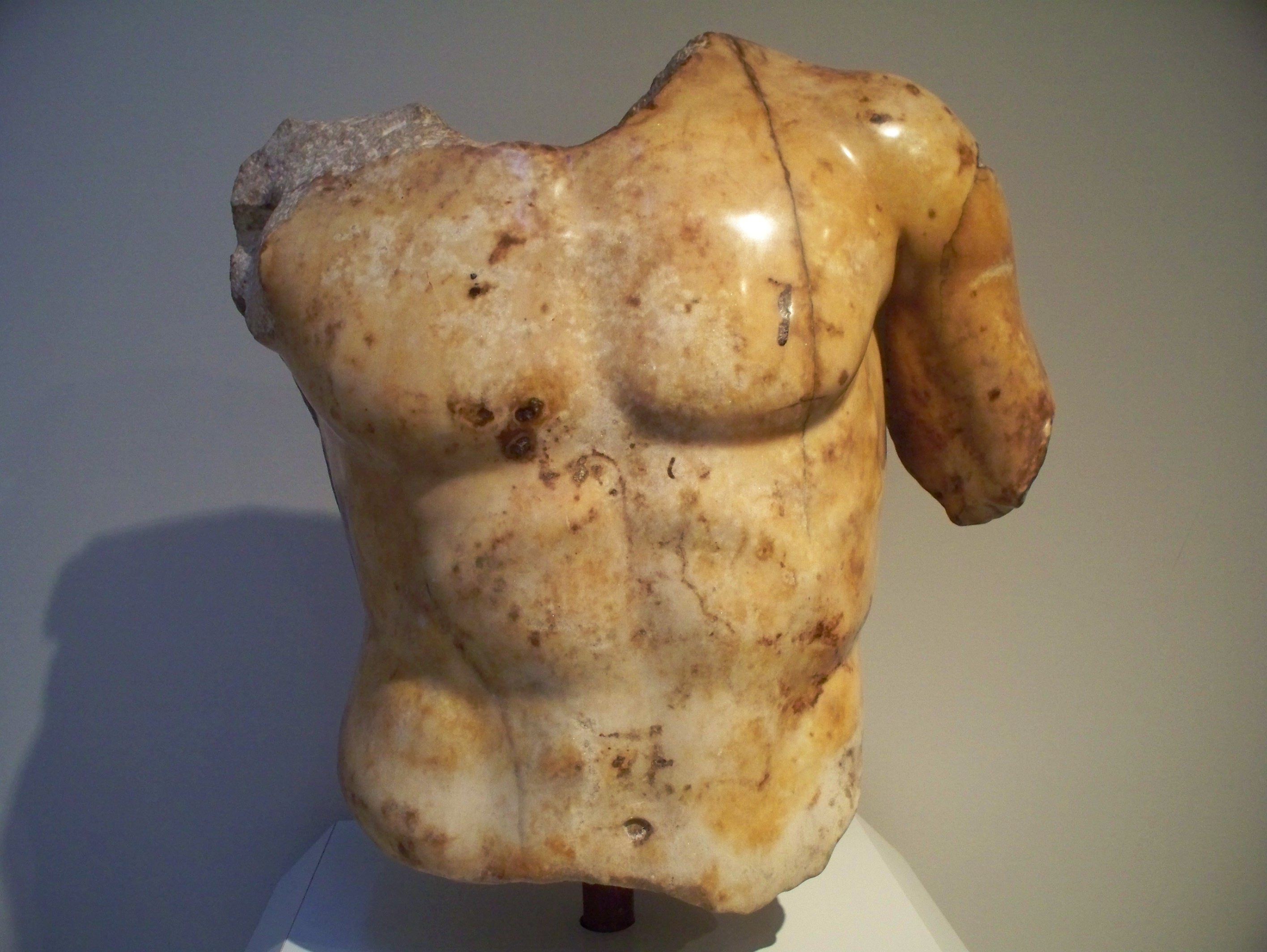 Torso Artist unknown Creation date 100 - 1 B.C.E. Materials white marble Dimensions 19 x 25 x 16 in. Location Art of Antiquity, Medieval Gallery Credit line Bequest of Elizabeth Gilbert Fortune in memory of her late husband Robert Patrick O'Riley Fortune Accession number 2004.89 This over-life-sized figure once stood or sat in a niche with his right arm raised and bending slightly in that direction. His back, not meant to be seen, was only summarily carved. His well-chiseled torso, probably repolished in the 19th century, conformed to the standards of human perfection, applicable to representations of gods, heroes and mortals alike, throughout the Hellenized Mediterranean world down through the early Roman Empire. Purportedly unearthed from the ruins of the major North African Roman colony of Lepcis Magna, this torso may have been repolished in the early nineteenth century when such restoration of antiquities was in vogue. Subsequently, it was with Spink and Sons, in London, Robert Hecht, Jr. in Rome and The Connaught Gallery in London from whom the Fortunes purchased it in 1970. Former collections: Spink and Sons, London Robert Hecht, Jr., Rome The Connaught Gallery, London Mr. and Mrs. Robert Fortune, Indianapolis (by purchase, 1970) Wikipedia Loves Art at the Indianapolis Museum of Art This photo of item # 2004.89 at the Indianapolis Museum of Art was contributed under the team name "Opal_Art_Seekers_4" as part of the Wikipedia Loves Art project in February 2009. Indianapolis Museum of Art The original photograph on Flickr was taken by Forever Wiser—please add a comment to the original Flickr page whenever a use has been made on Wikipedia or another project. Project galleries on Flickr: this institution, this team